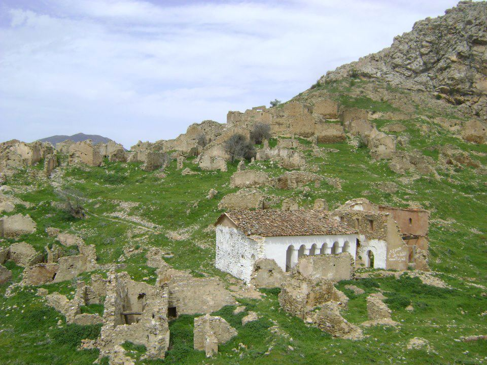 Ait Maouche beni maouche la coline oubliée